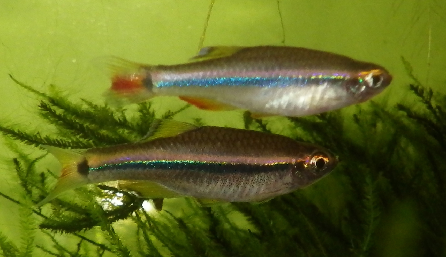 Two wild-caught Tanichthys kuehnei (formerly mislabled as T. thacbaensis)